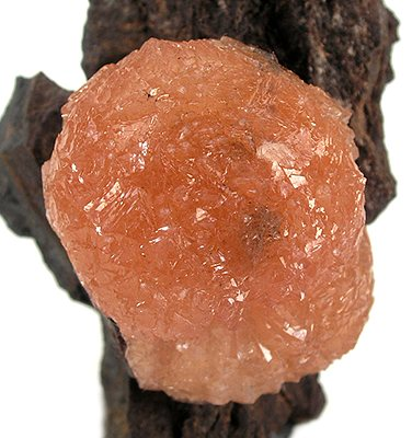 Poldervaartite Locality: N'Chwaning II Mine, N'Chwaning Mines, Kuruman, Kalahari manganese fields, Northern Cape Province, South Africa (Locality at ) Size: cabinet, 9 x 5 x 4 cm POLDERVAARTITE A true killer featuring a 4 x 3 x 3 cm cluster of GEMMY, GLASSY poldervaartite sitting starkly on contrasting matrix! ALMOST NEVER do you get such upright, 3-dimensional clusters! In fact, outside of a very few specimens now in Harvard or the Sacco collection, Charlie thought this to be the best of its style in this regard. It is important to see how much relief the piece has, to make the polder leap out at you visually, when compared to other specimens where the crystals are embedded or laying flat. Charlie felt very strongly that, amidst all that came out, he did get the chance to choose for himself several of the very best, shown here now for the first time since they were mined. Comes with custom lucite display base.